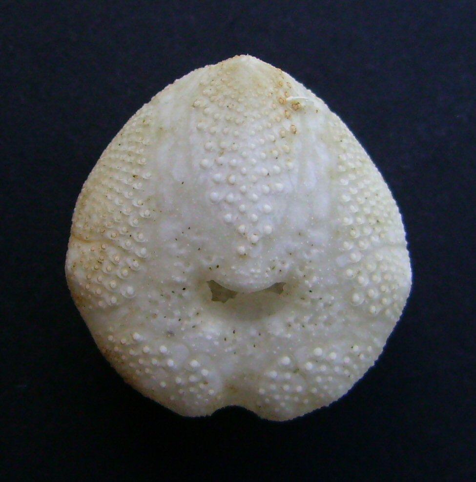 Echinocardium australe (underside) from Wenderholm, near Auckland, New Zealand. This work has been released into the public domain by its author, Graham Bould. This applies worldwide. In some countries this may not be legally possible; if so: Graham Bould grants anyone the right to use this work for any purpose, without any conditions, unless such conditions are required by law.